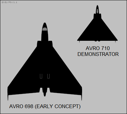 Plan-view silhouettes of early Avro Vulcan concepts